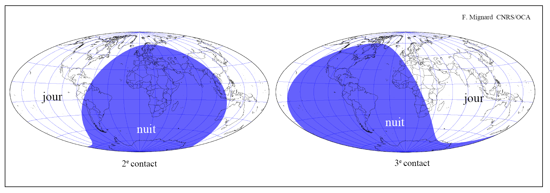 Visibility of the 2nd and 3rd contacts during the Venus transit of 2012, according as the Sun is above or below the horizon.